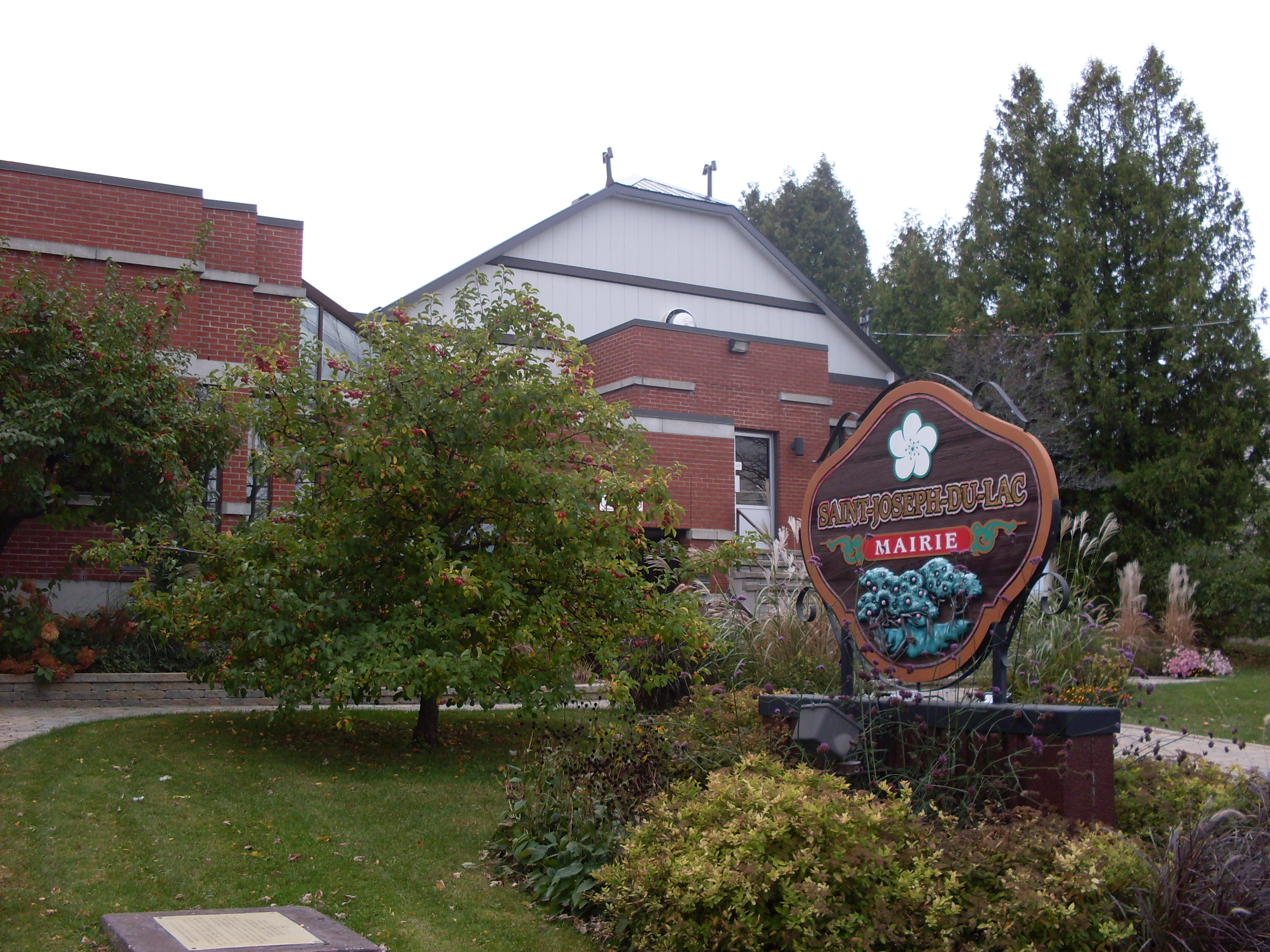 Saint-Joseph-du-Lac, Quebec. City hall.